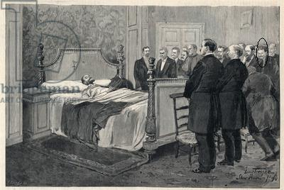 stowe house 1894